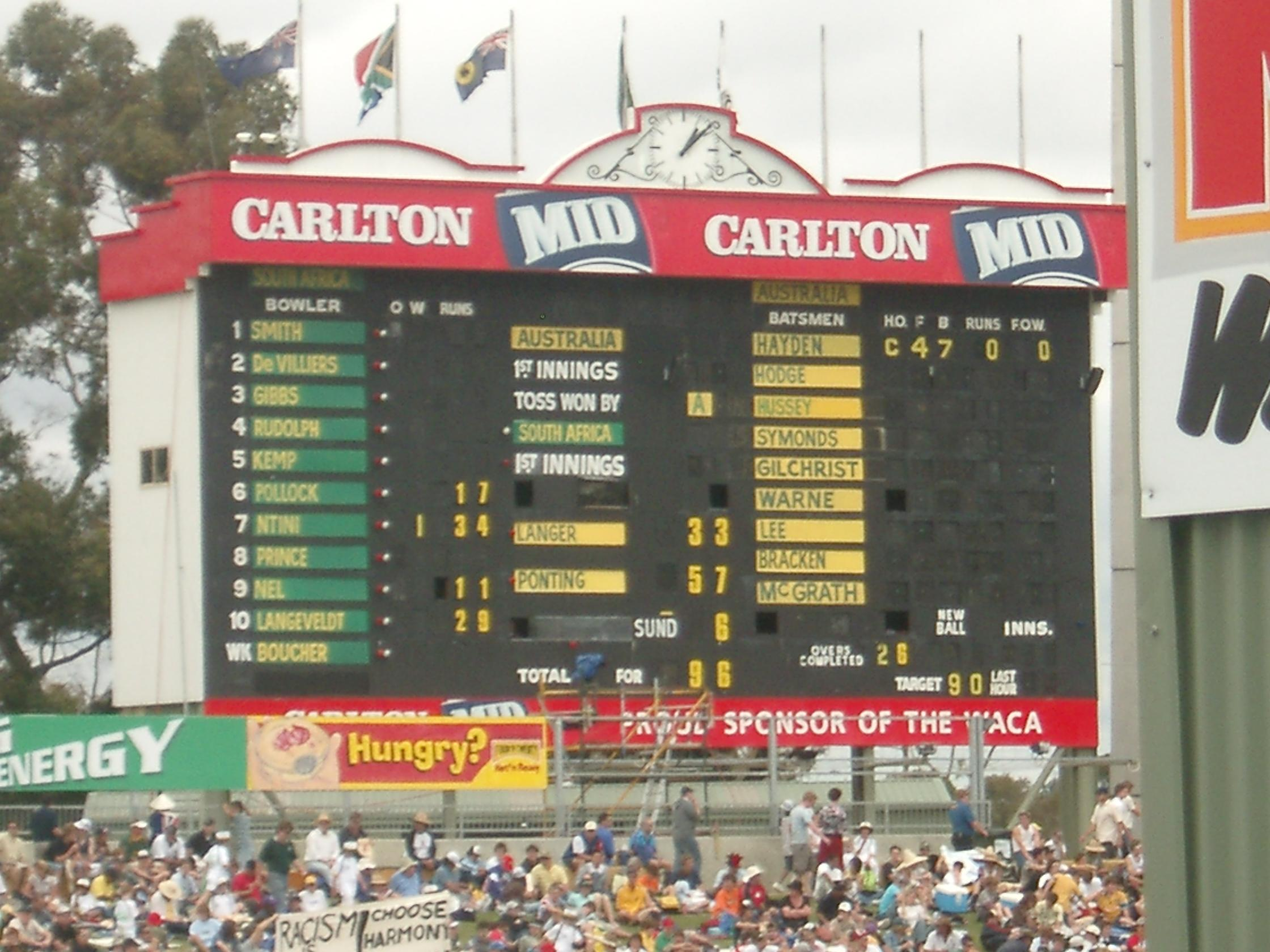 The old scoreboard at the WACA in use.